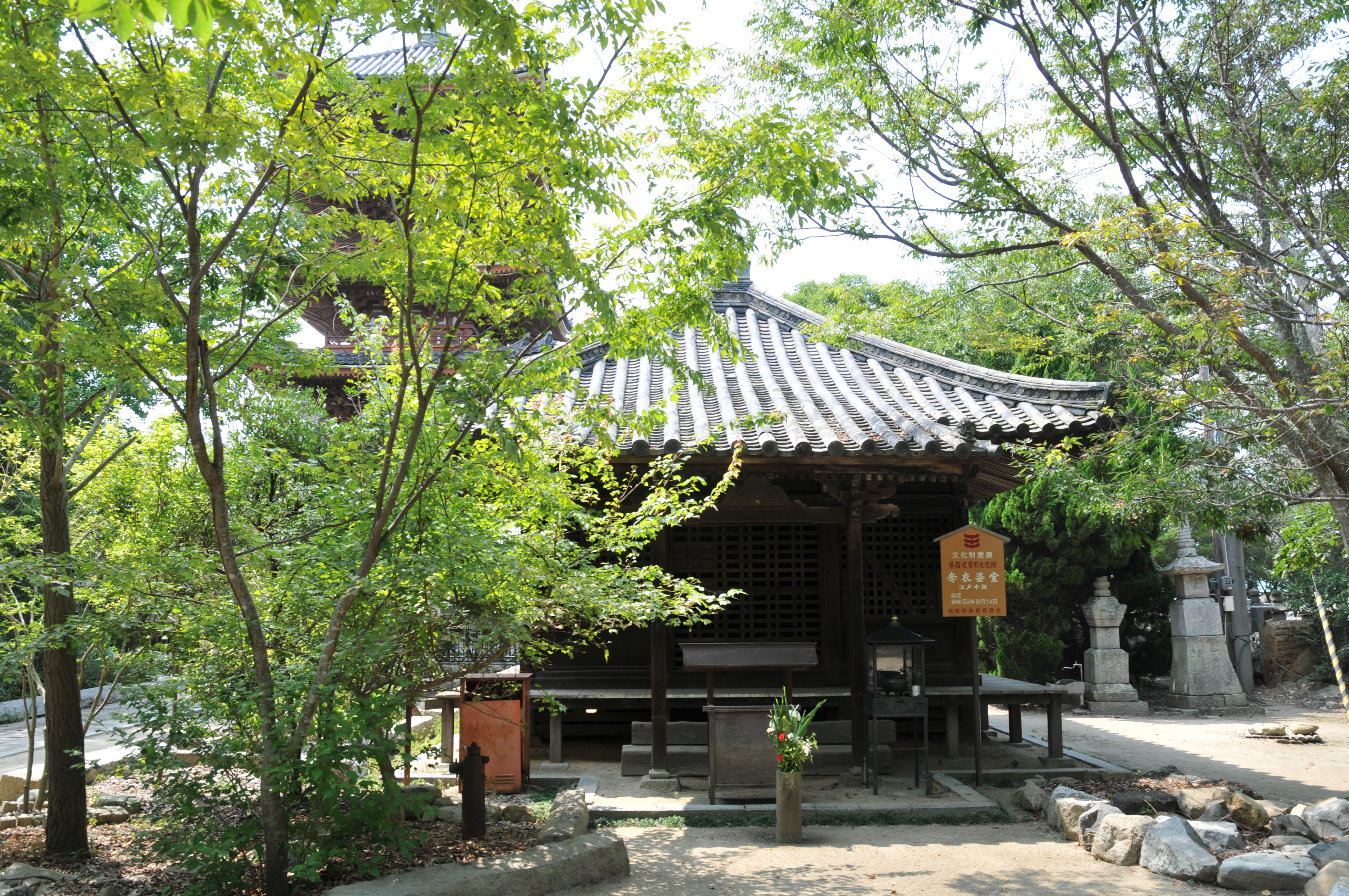 Datsueba-dō, Shido-ji